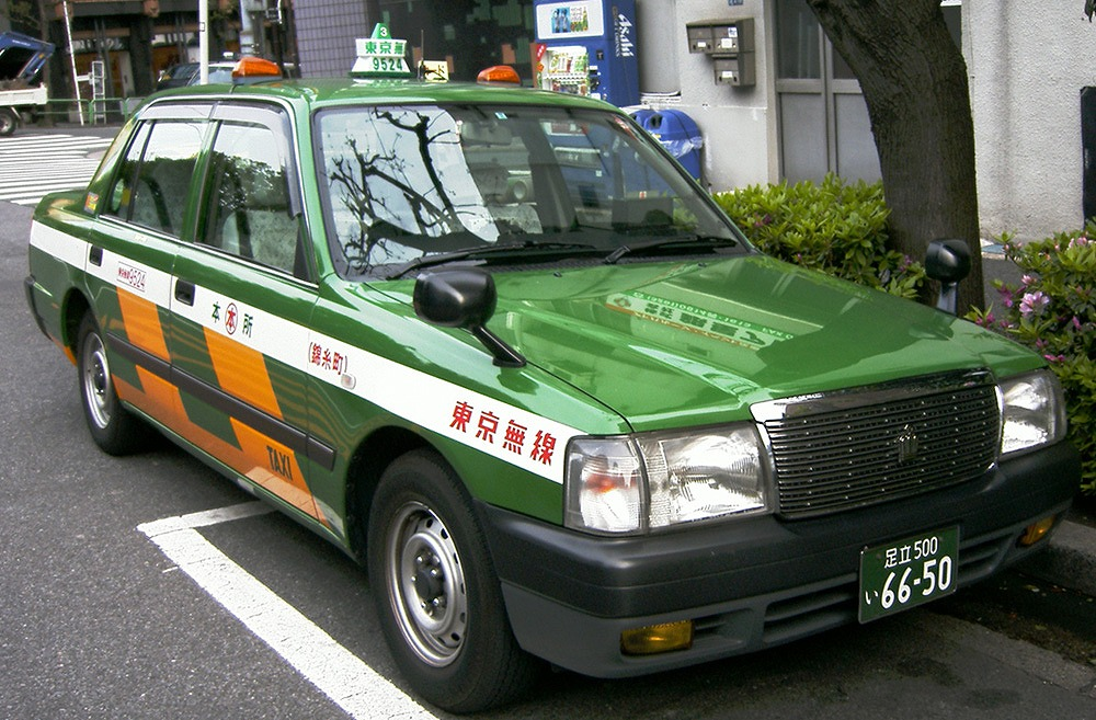 Honjo_taxi Tokyo Japan